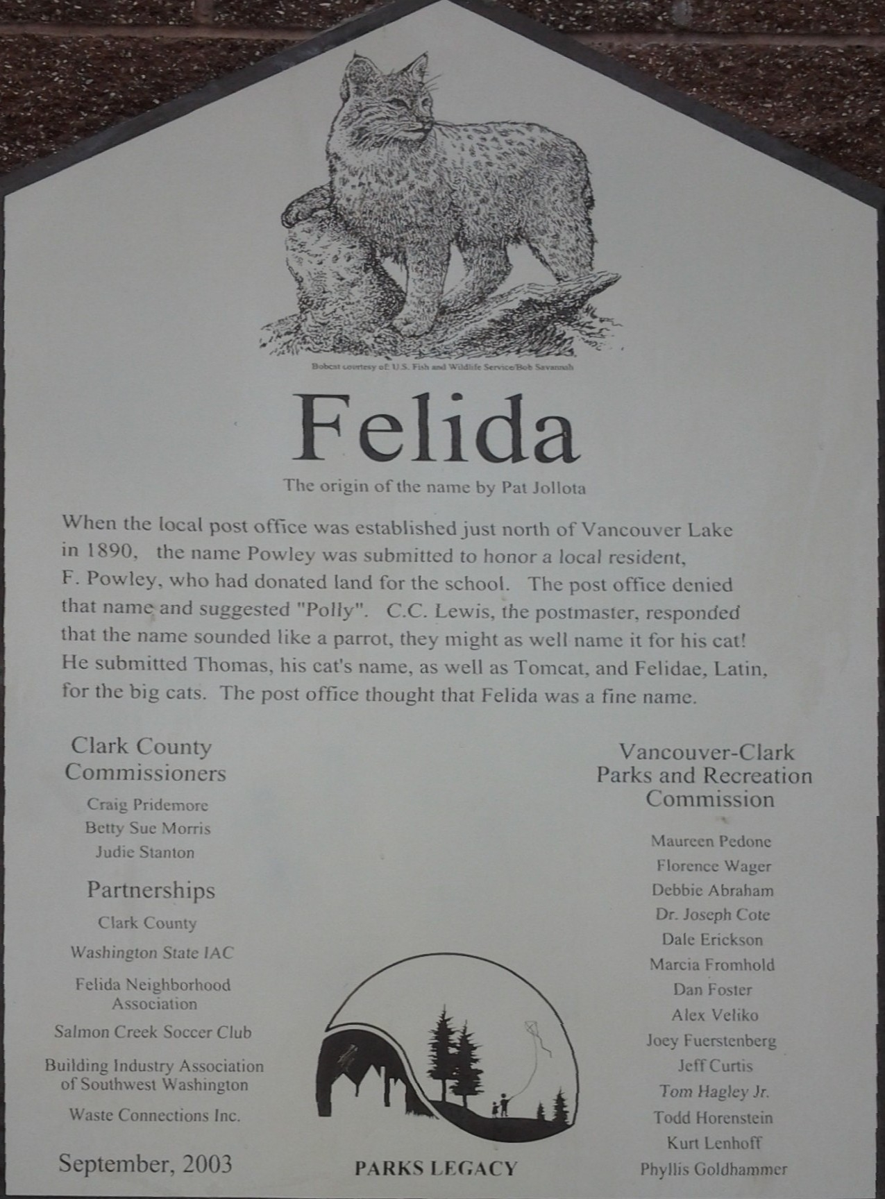 Photo of a plaque in Felida Park